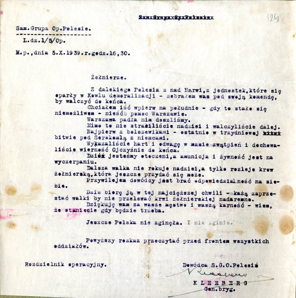 The last order of General Franciszek Kleeberg to his soldiers. 6th of October 1939